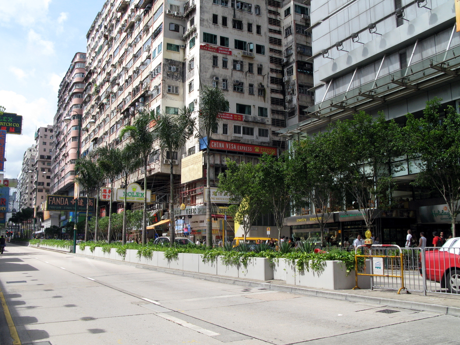 HK Nathan Road Tsim Sha Tsui Section